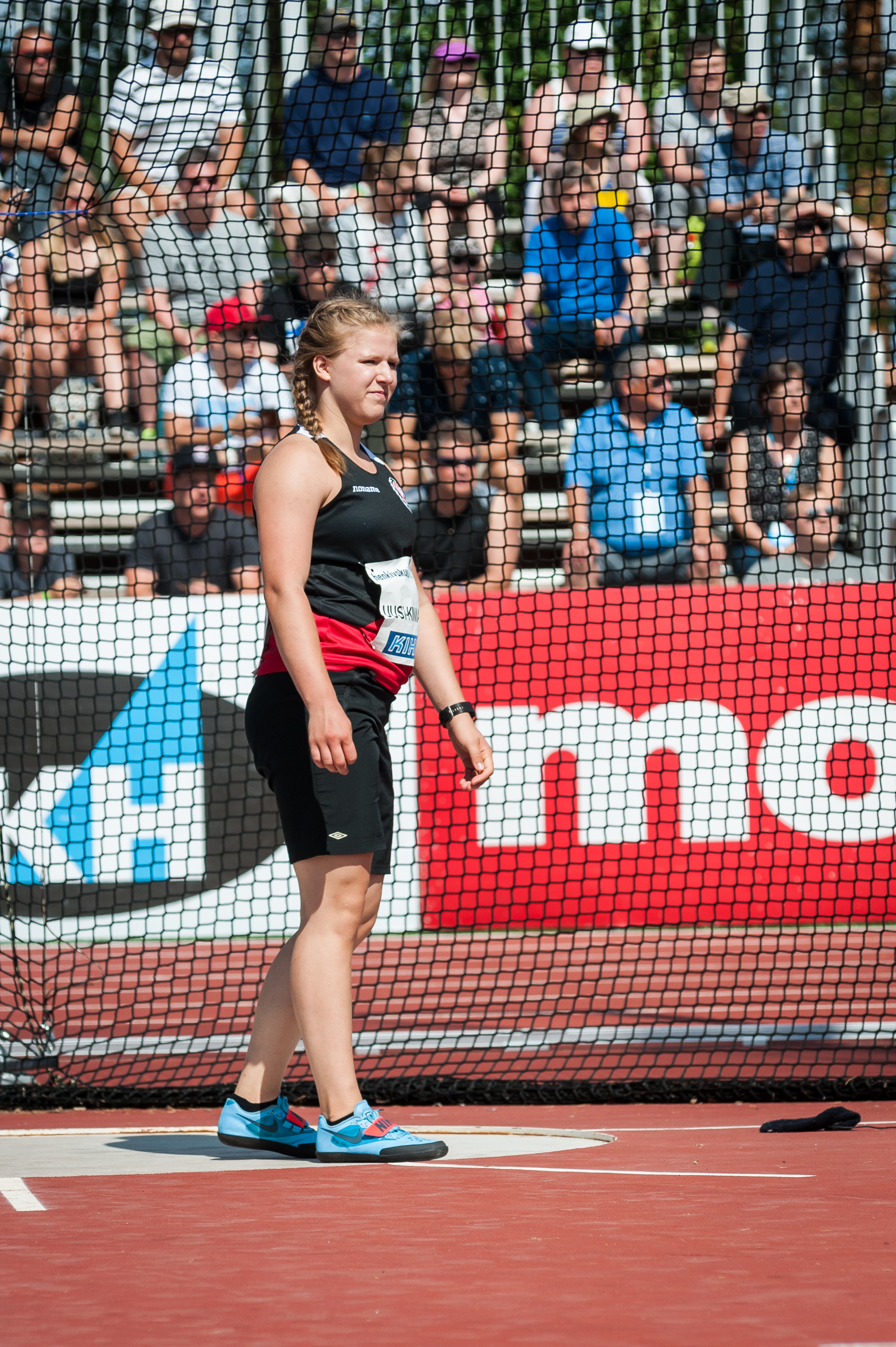 Women's discus throw competition at the 2018 Kalevan Kisat, the Finnish championships in athletics, in Jyväskylä, Finland.